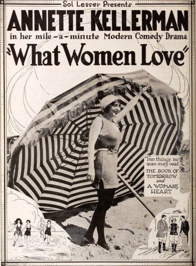 Advertisement for the American comedy drama film What Women Love (1920) with Annette Kellerman, on page 24 of the May 8, 1920 Exhibitors Herald.